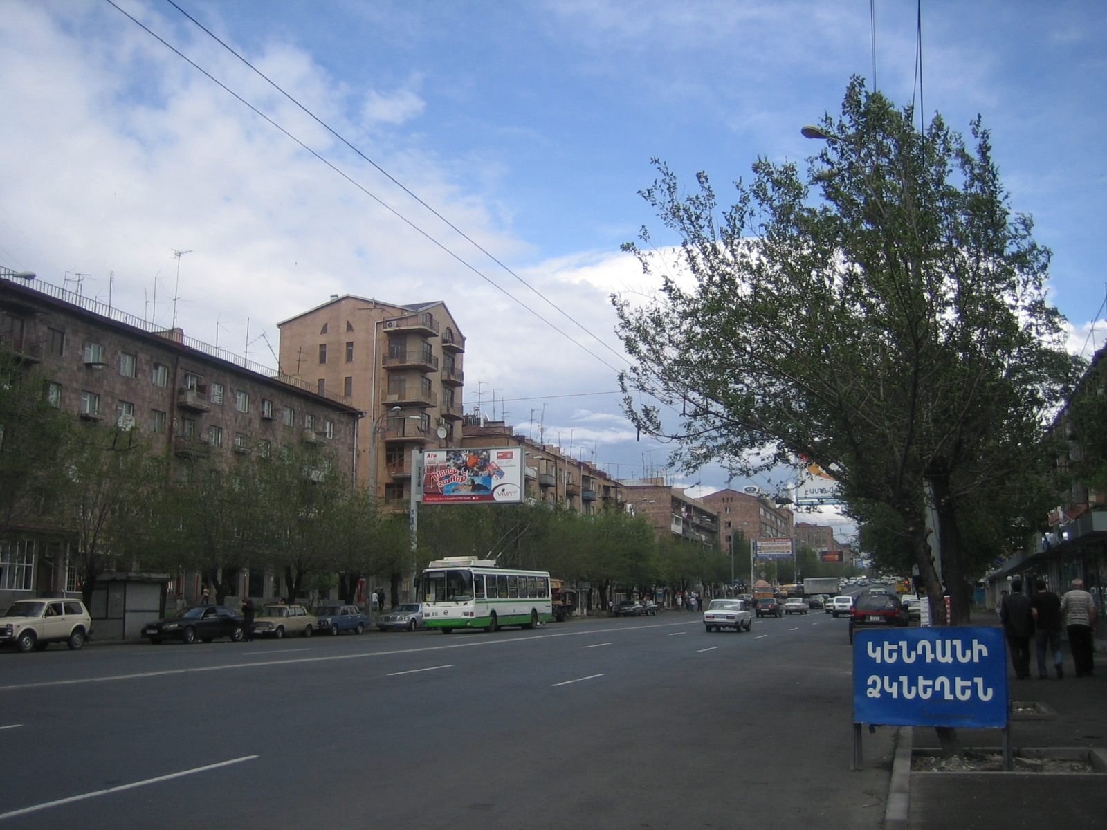 Komitas Avenue, the main street of Yerevan's Arabkir District in Armenia's capital. Komitas stretches from the Baregamutyum (Բարեկամութիւն) metro station to the "Lambada" overpass where the Zeytun district begins.